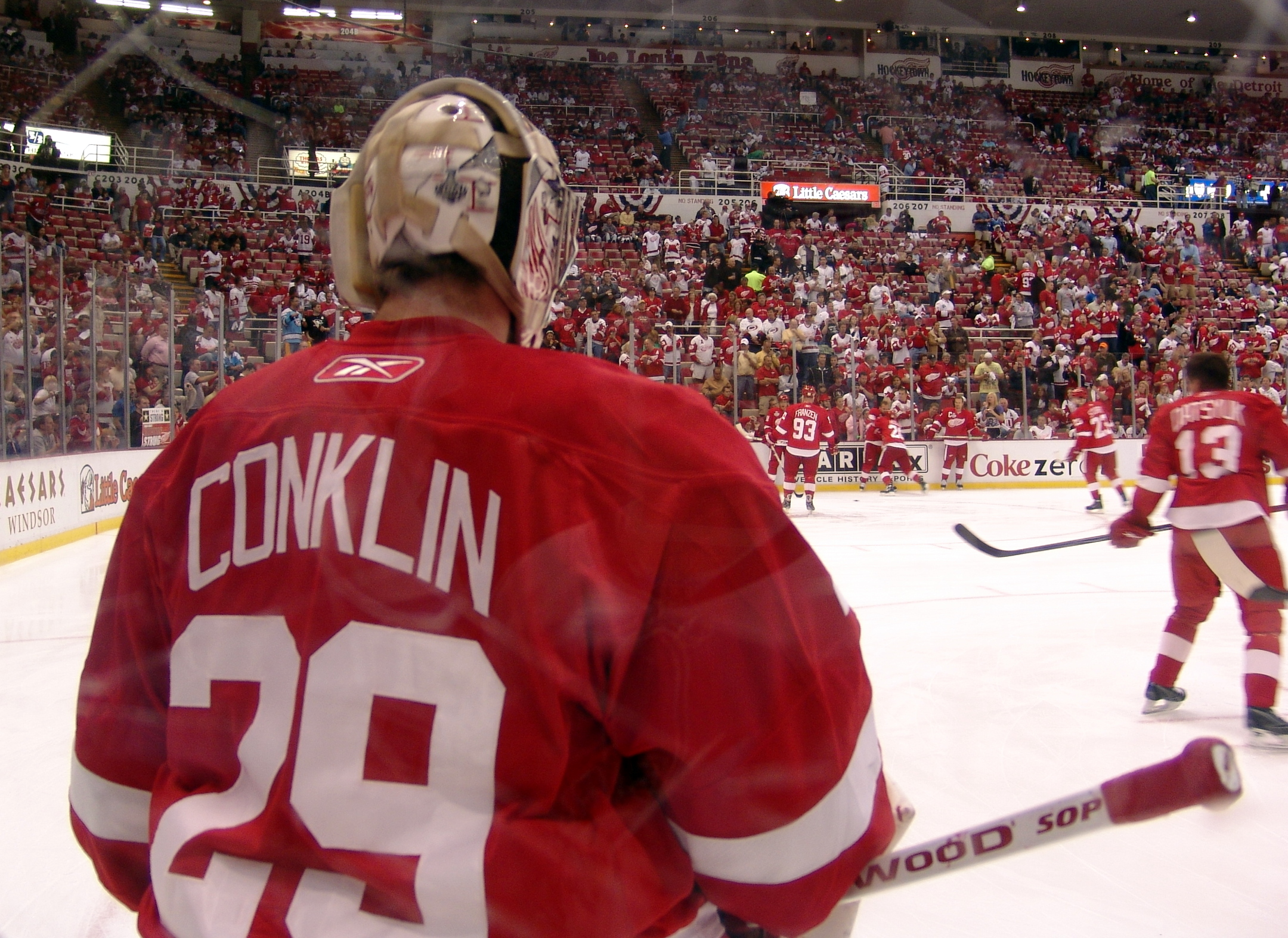 Detroit Red Wings goalie Ty Conklin prepares to warm up prior to 2009 Stanley Cup Finals Game 5 against the Pittsburgh Penguins at Joe Louis Arena in Detroit, MI. June 6, 2009.